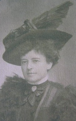 A portrait of Julia Hunt Catlin Park Depew Taufflieb